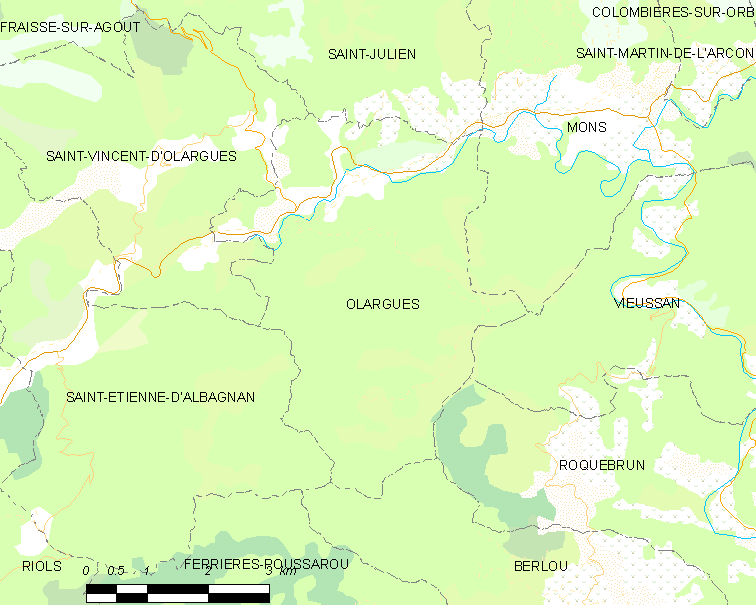 Map commune FR insee code 34187.png - Olargues